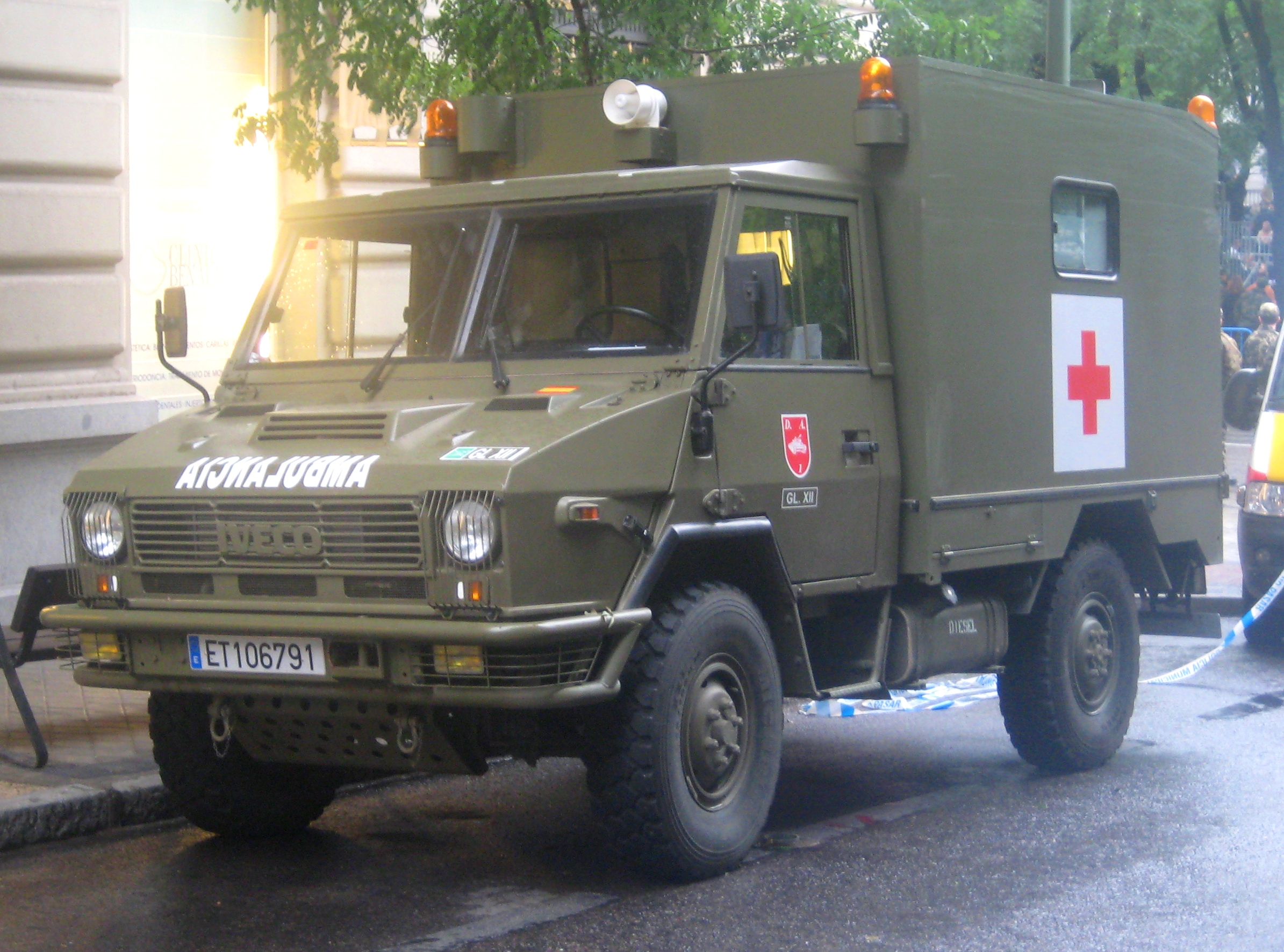 Iveco-Pegaso 40.10WM ambulance of the Spanish Army. With "AMBULANCIA" in mirror writing ("AICNALUBMA").